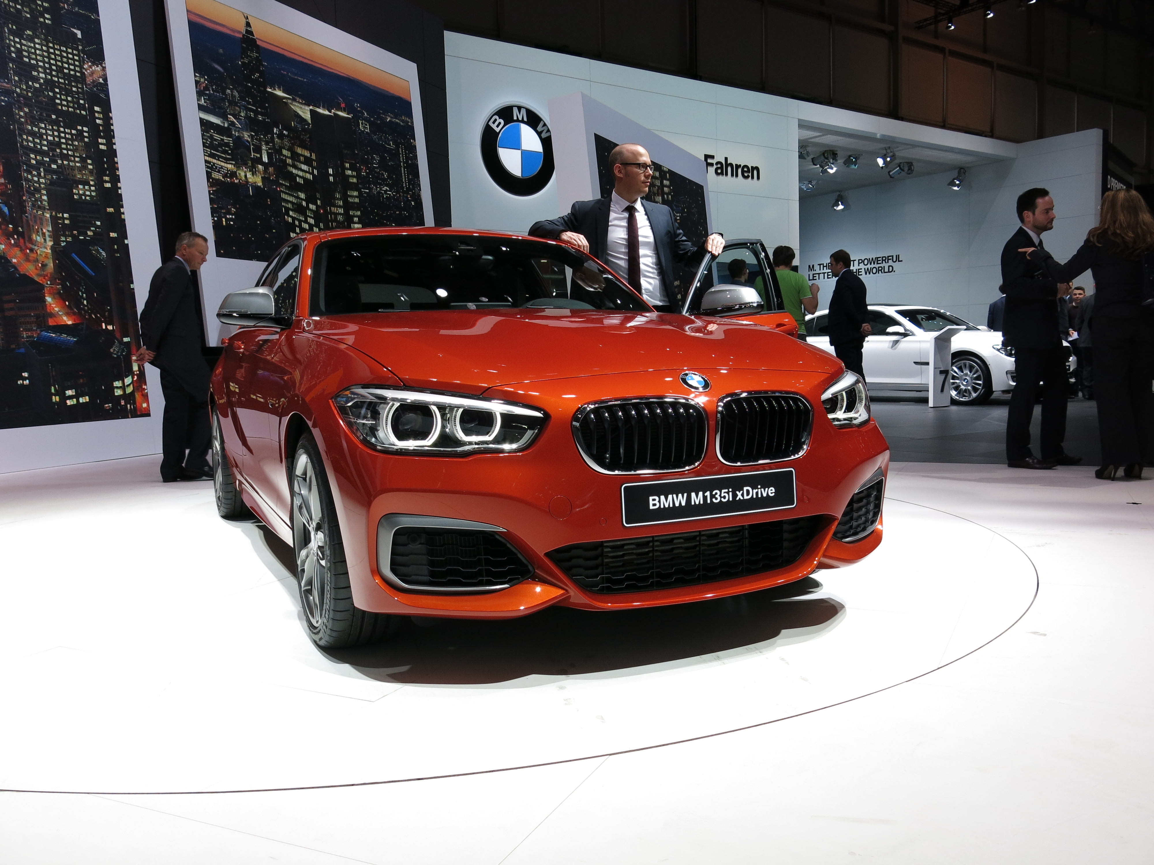 Geneva Motor Show 2015 (photo taken on the first press day)